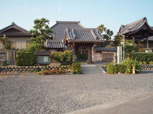 Jyouzaiin, Mie, Japan